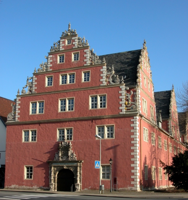 Wolfenbüttel, Germany: Front view of Wolfenbüttel Armory.